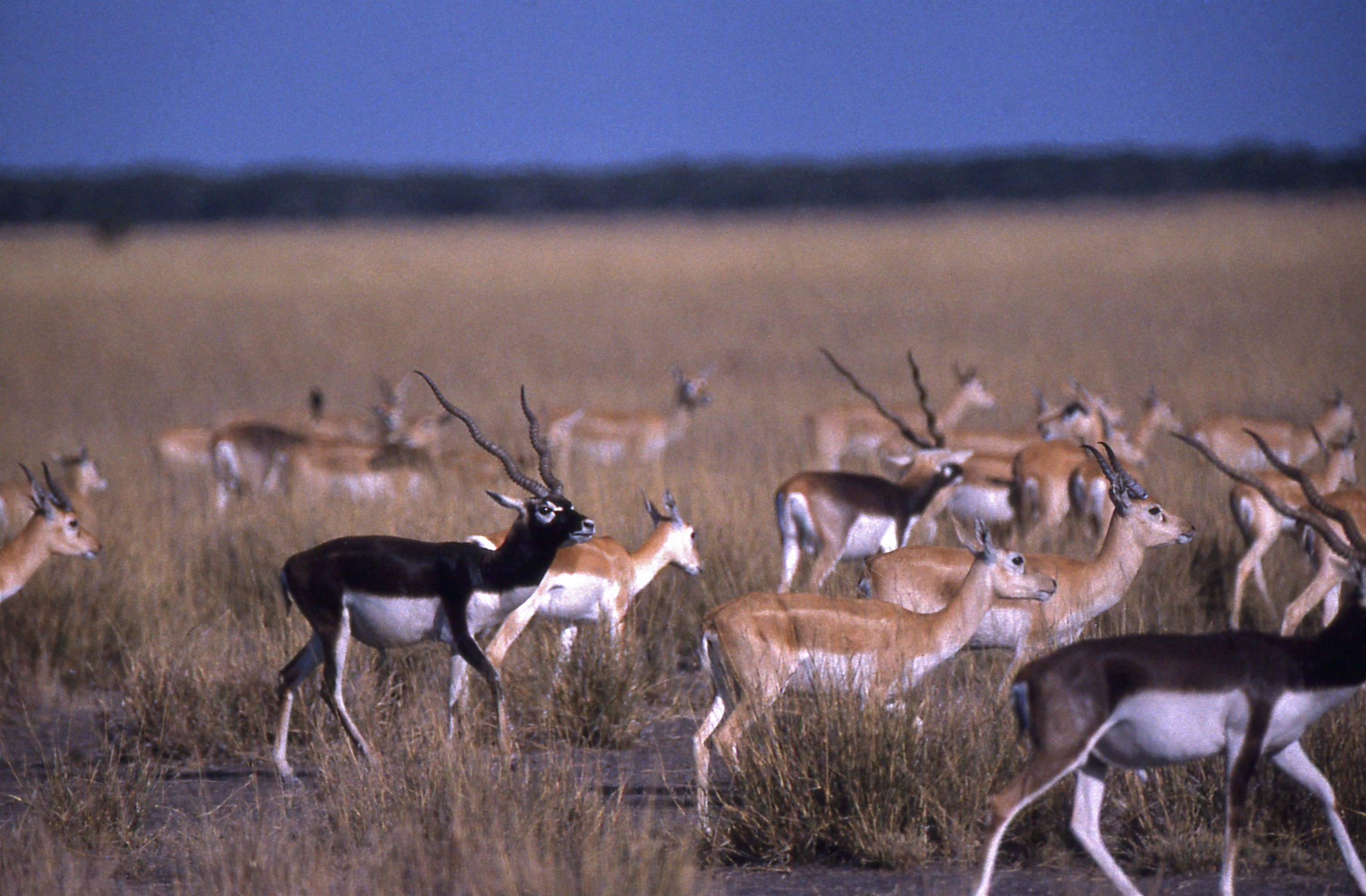 Blackbuck NP, Velavadar, Gujarat, INDIA Scanned Slide from February 1994